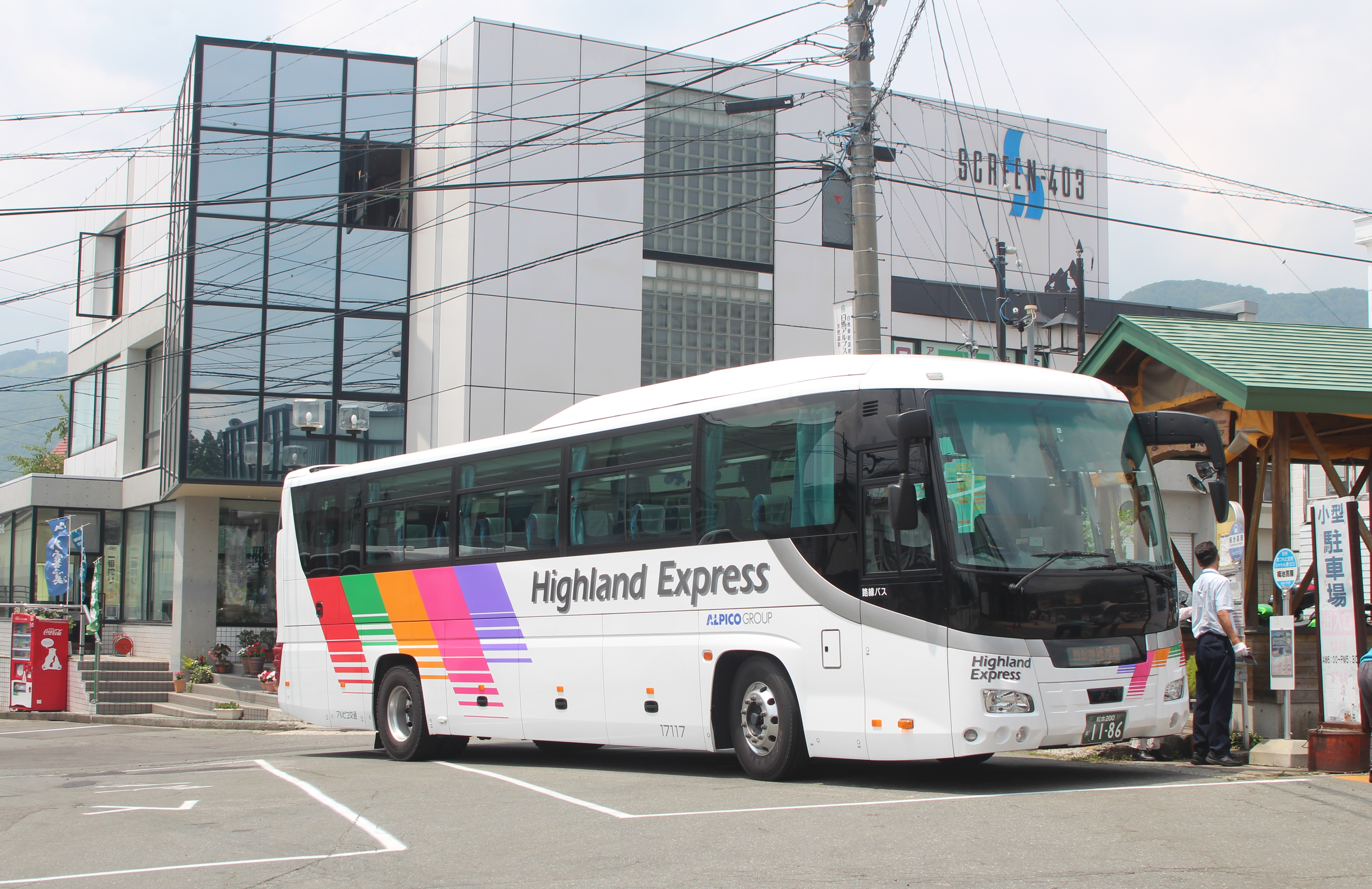 Bus stop Tsugaikekogen in Otari, Nagano Prefecture, Japan.